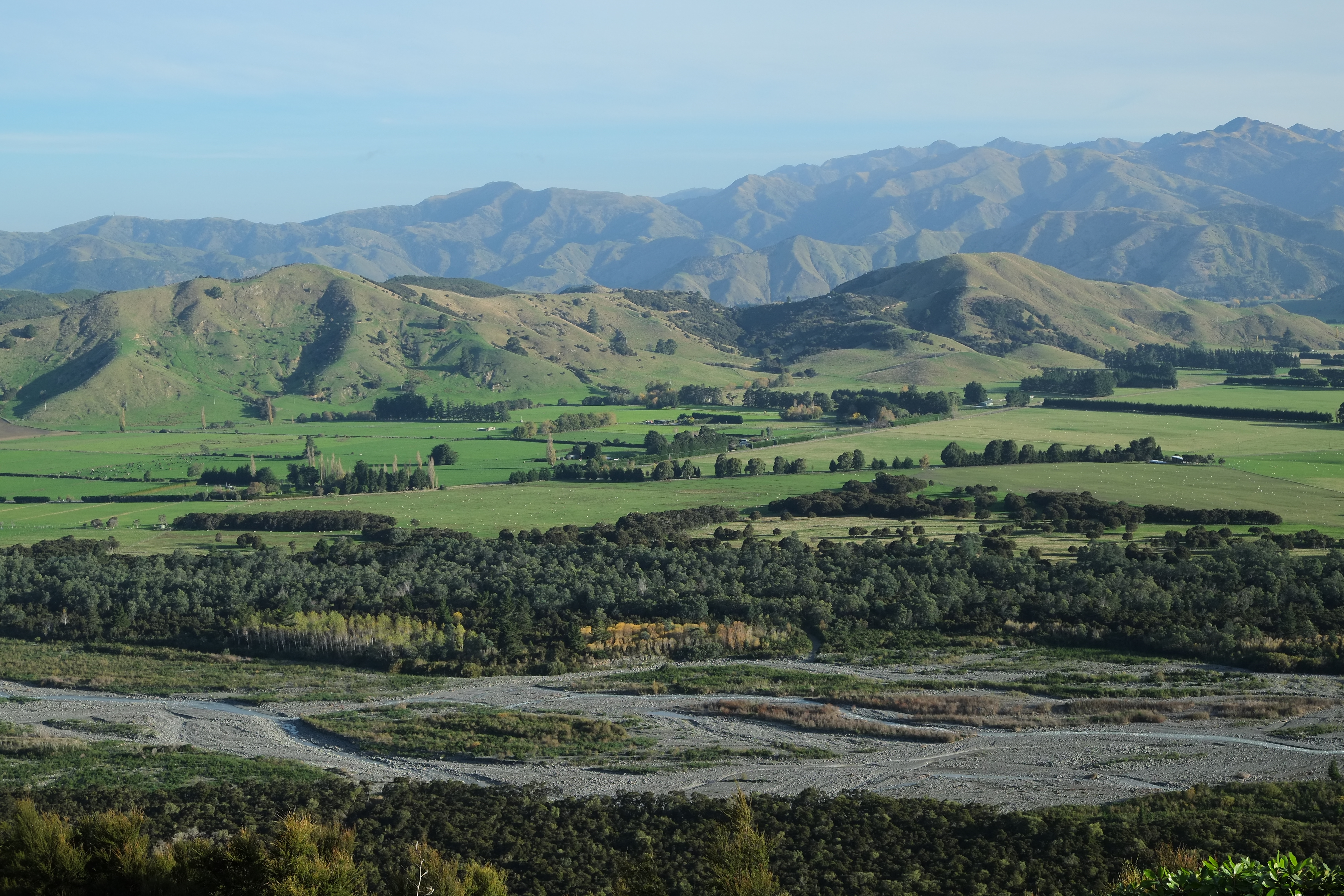 View over Kowhai River near Kaikoura